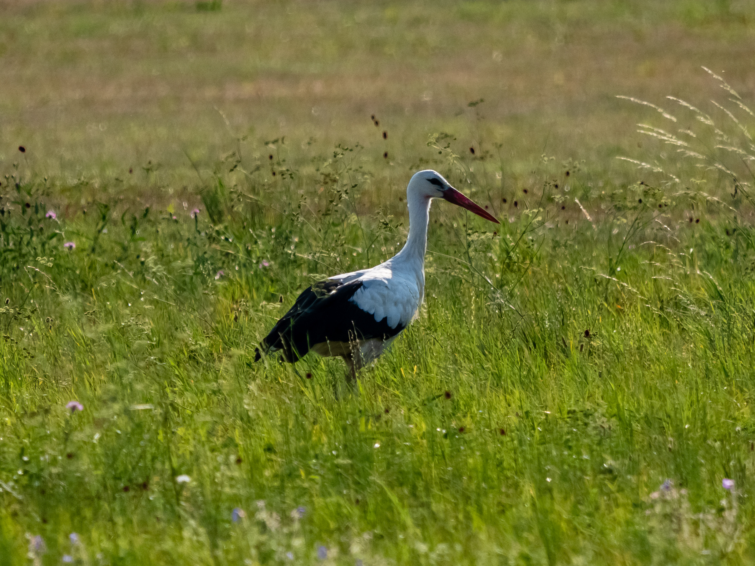 White stork in the Aischgrund near Höchstadt